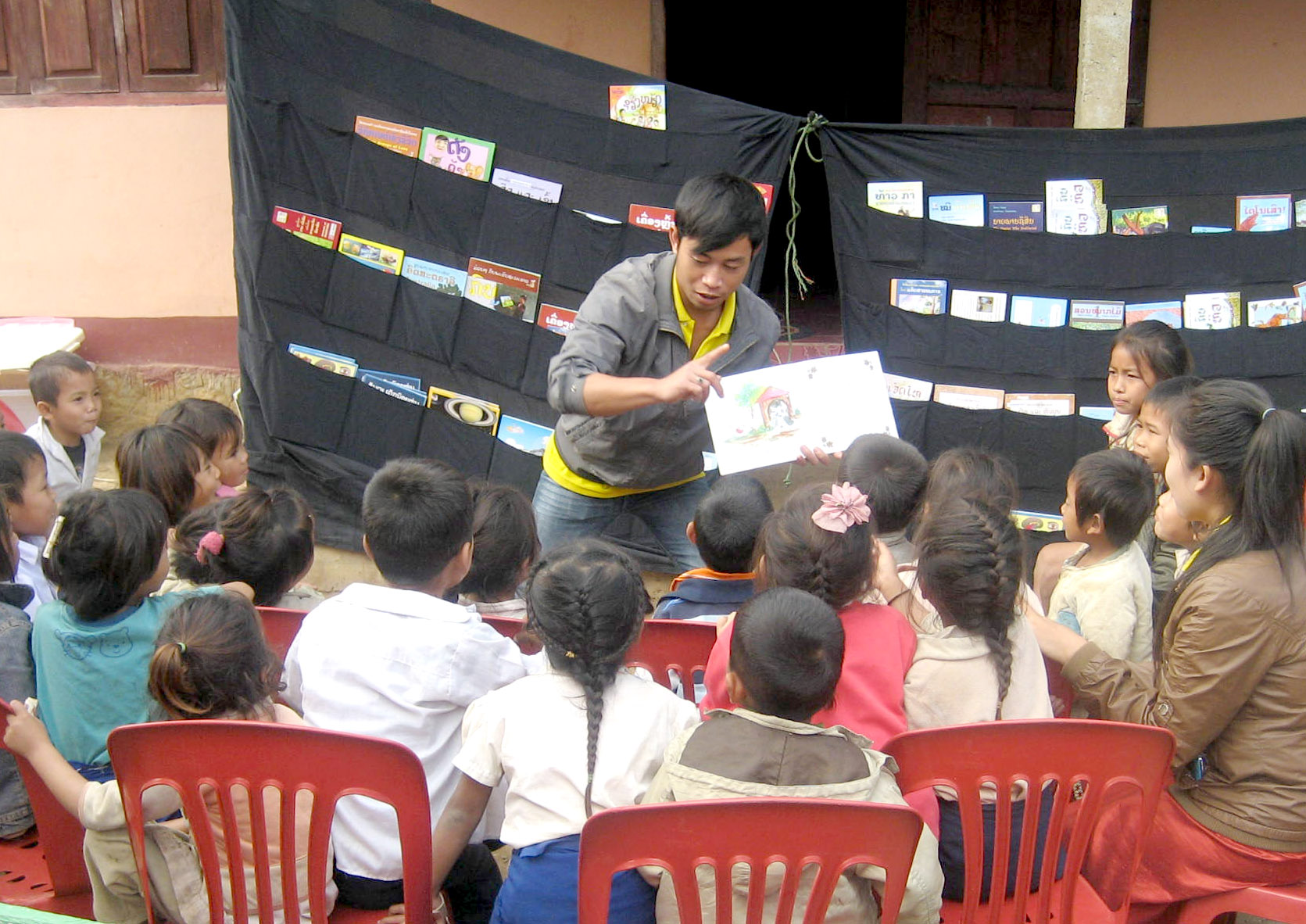 Addy Vannasy reads aloud to children at a village "Discovery Day" in Laos. Reading aloud is a common technique for improving literacy rates. Big Brother Mouse, which organized the event, trains its staff in read-aloud techniques: Make eye contact with the audience. Change your voice. Pause occasionally for dramatic effect.